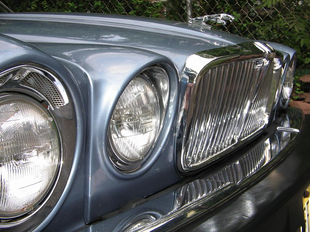 1987 Jaguar XJ6 Series III Grill Detail